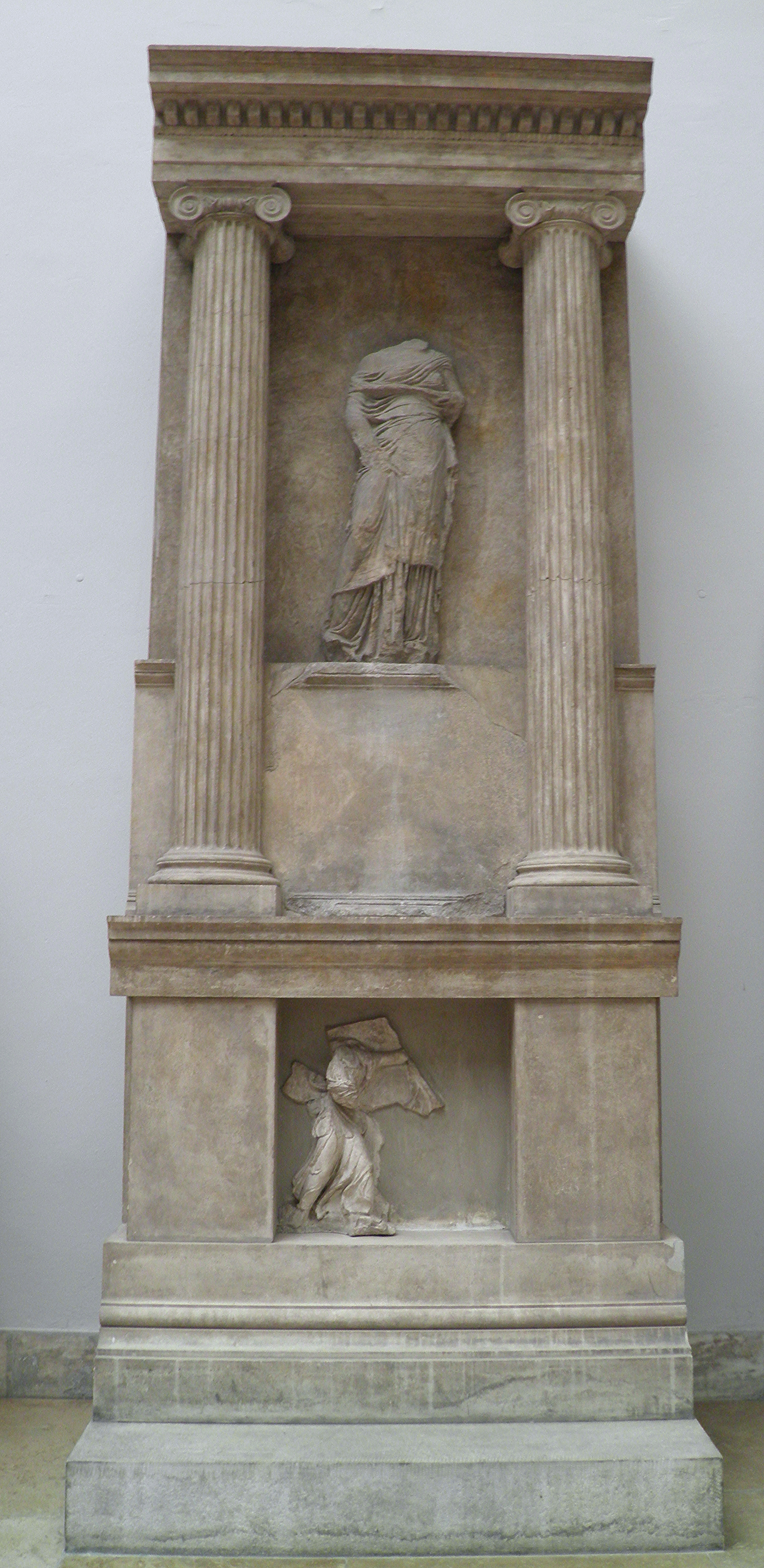 Altar of Athena Polias at Priene, reconstruction with original balustrade and relief with a Muse, 2nd century BC, Pergamon Museum Berlin